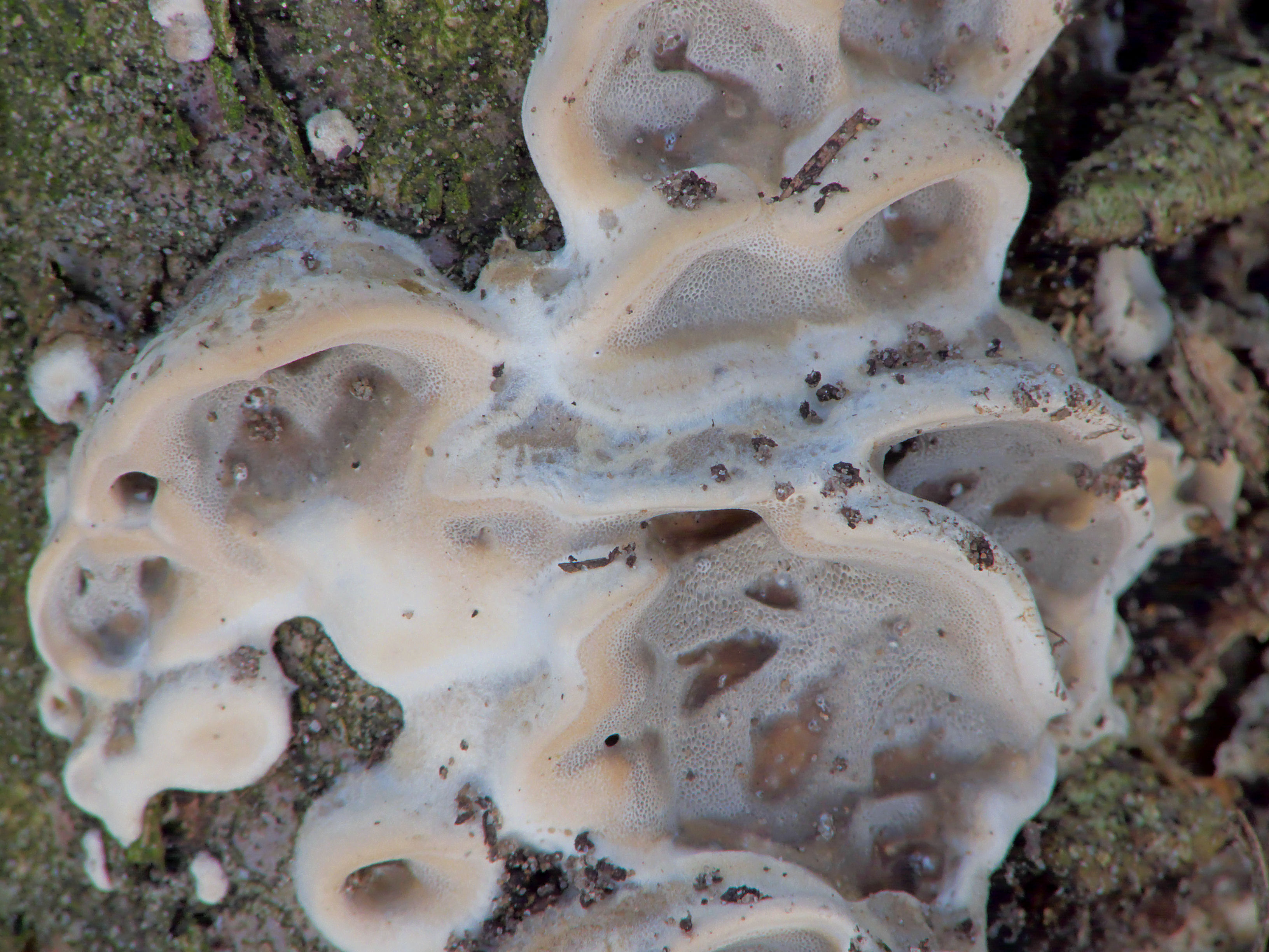 Bjerkandera adusta at Corylus avellana